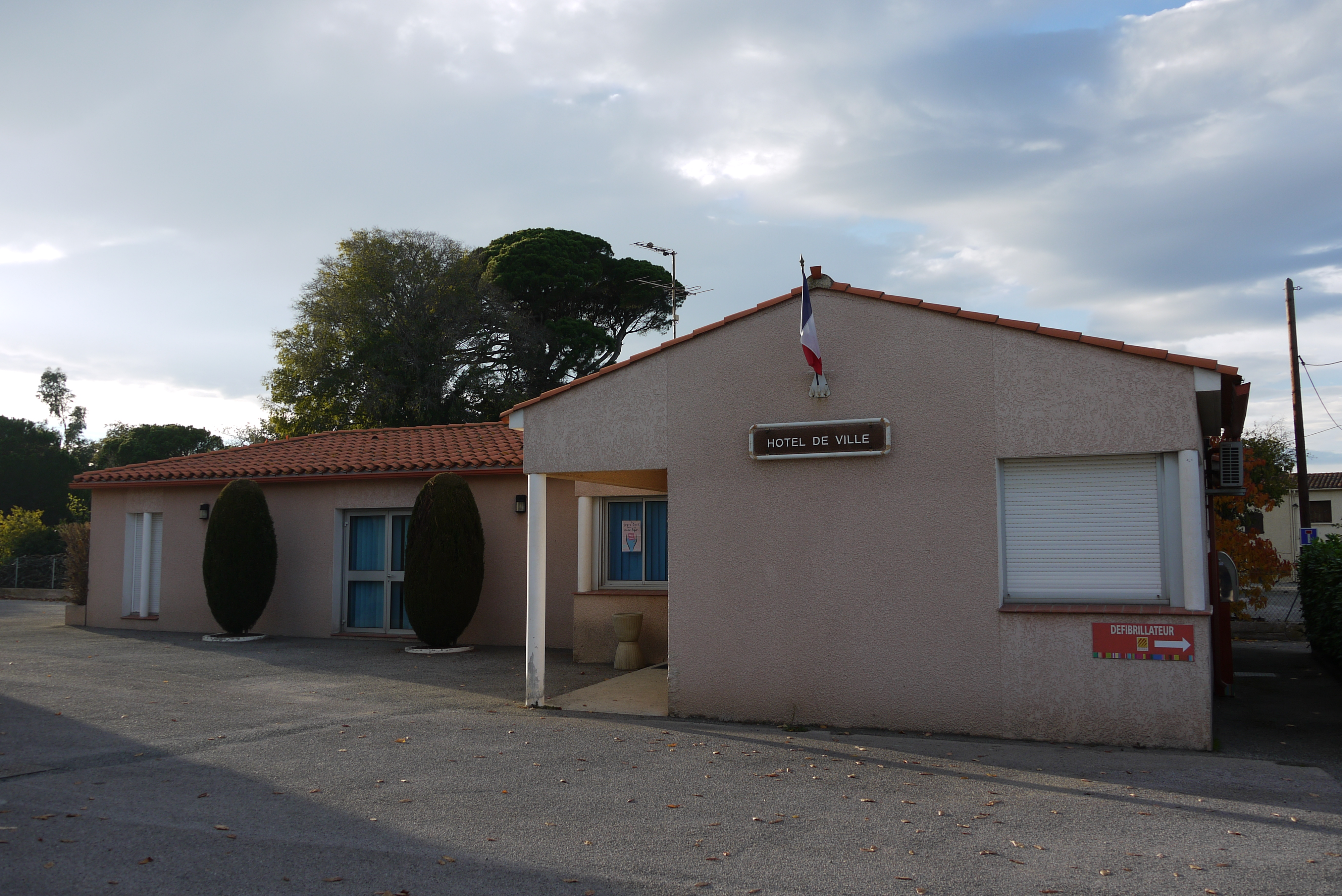 The town hall in Camélas